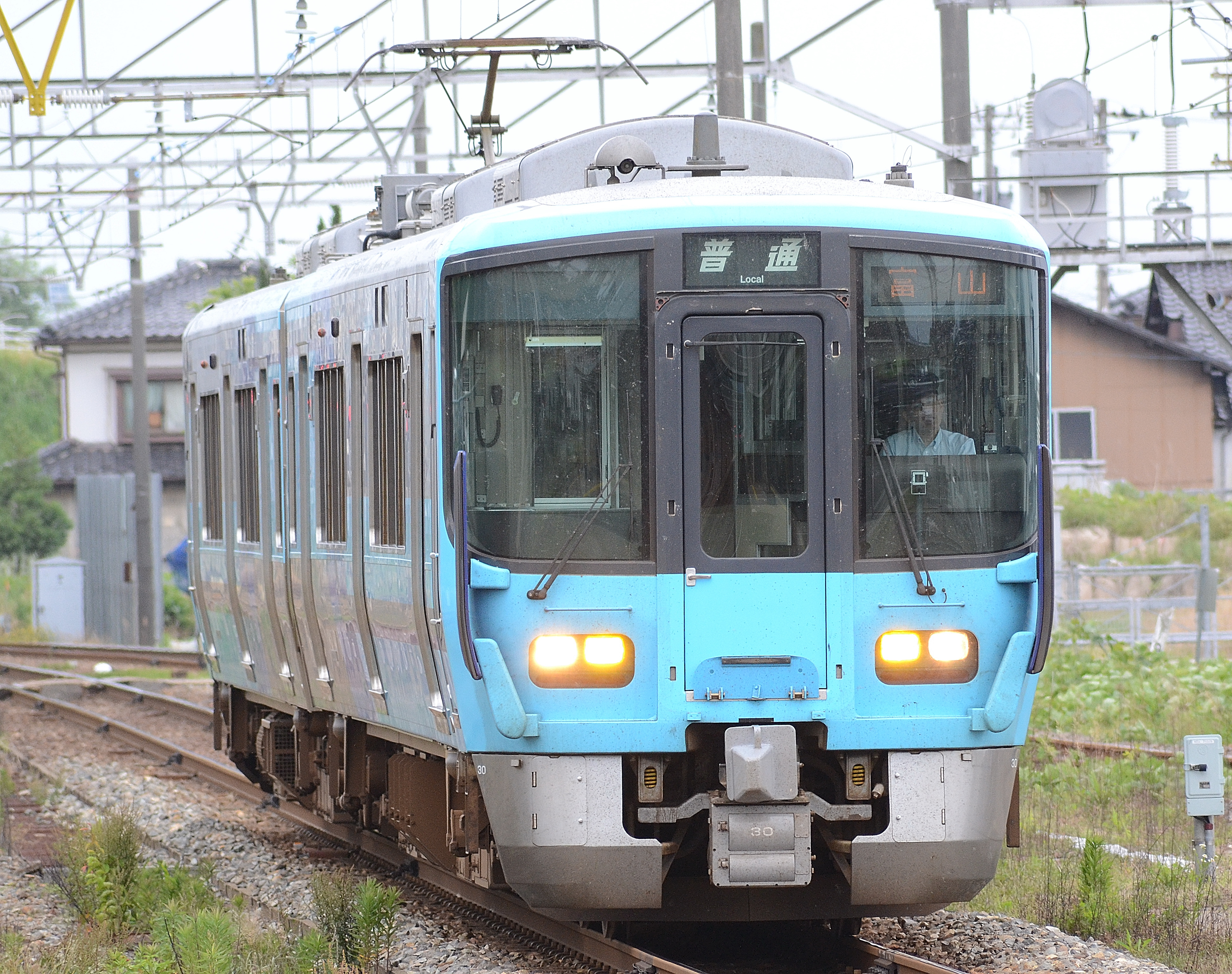 An IR Ishikawa Railway 521 series EMU set approaching Tsubata Station